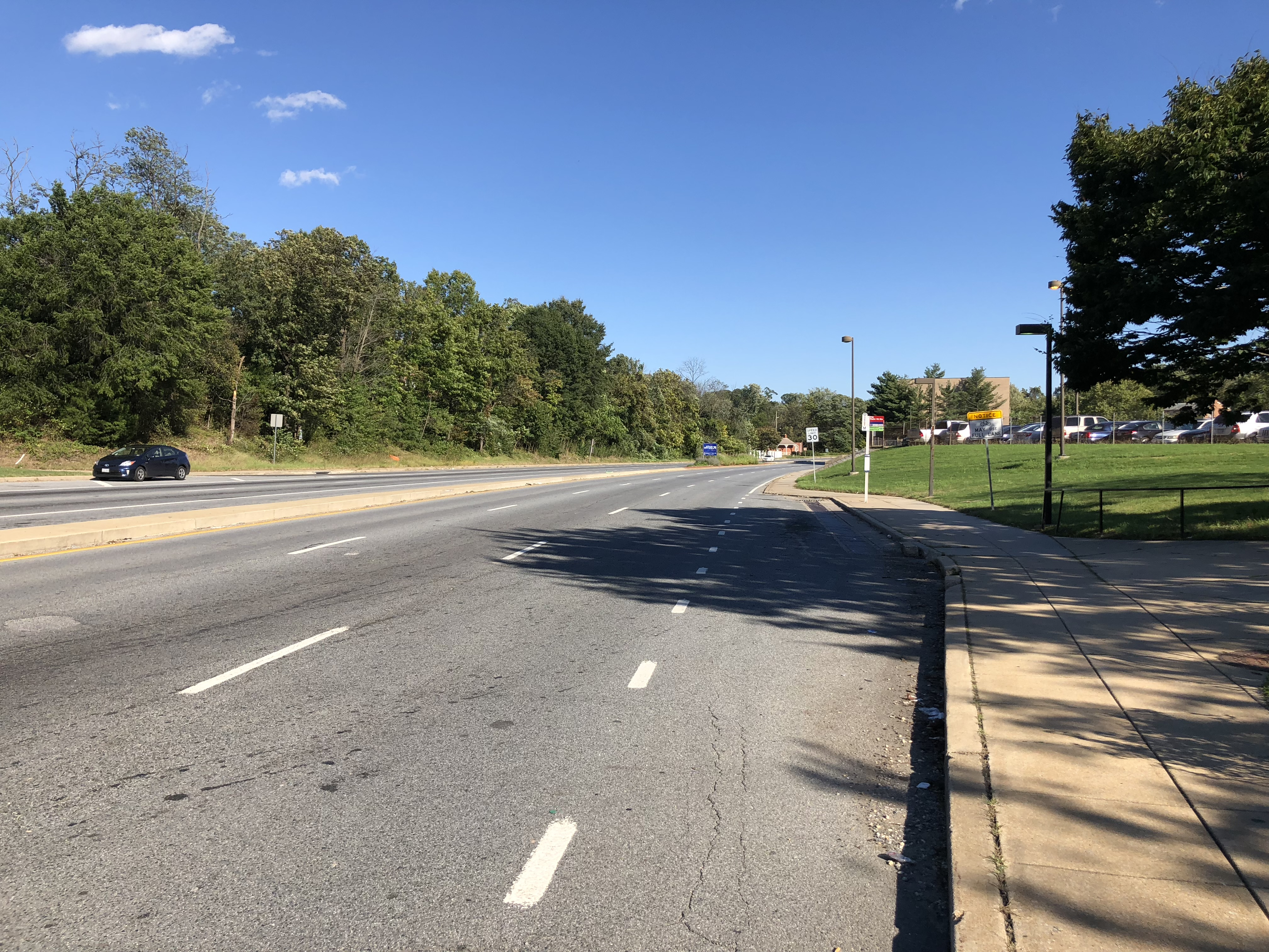 View east along Maryland State Route 214 (Central Avenue) at Southern Avenue in Capitol Heights, Prince George's County, Maryland